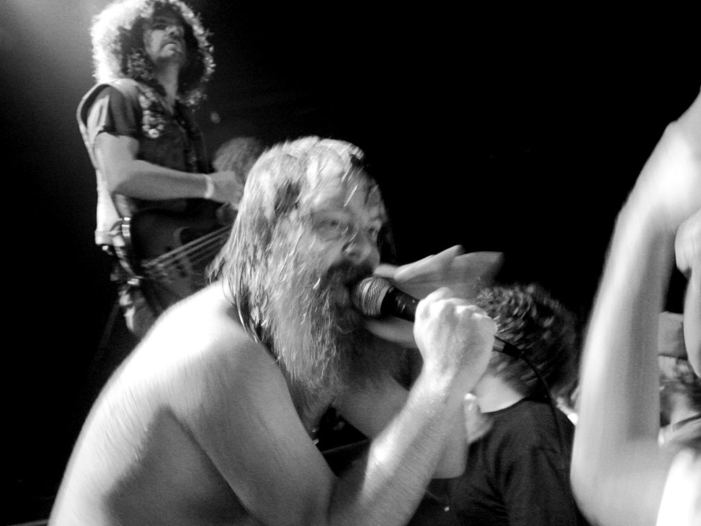 Valient Thorr live @ Planet Rock. Jacksonville, NC.